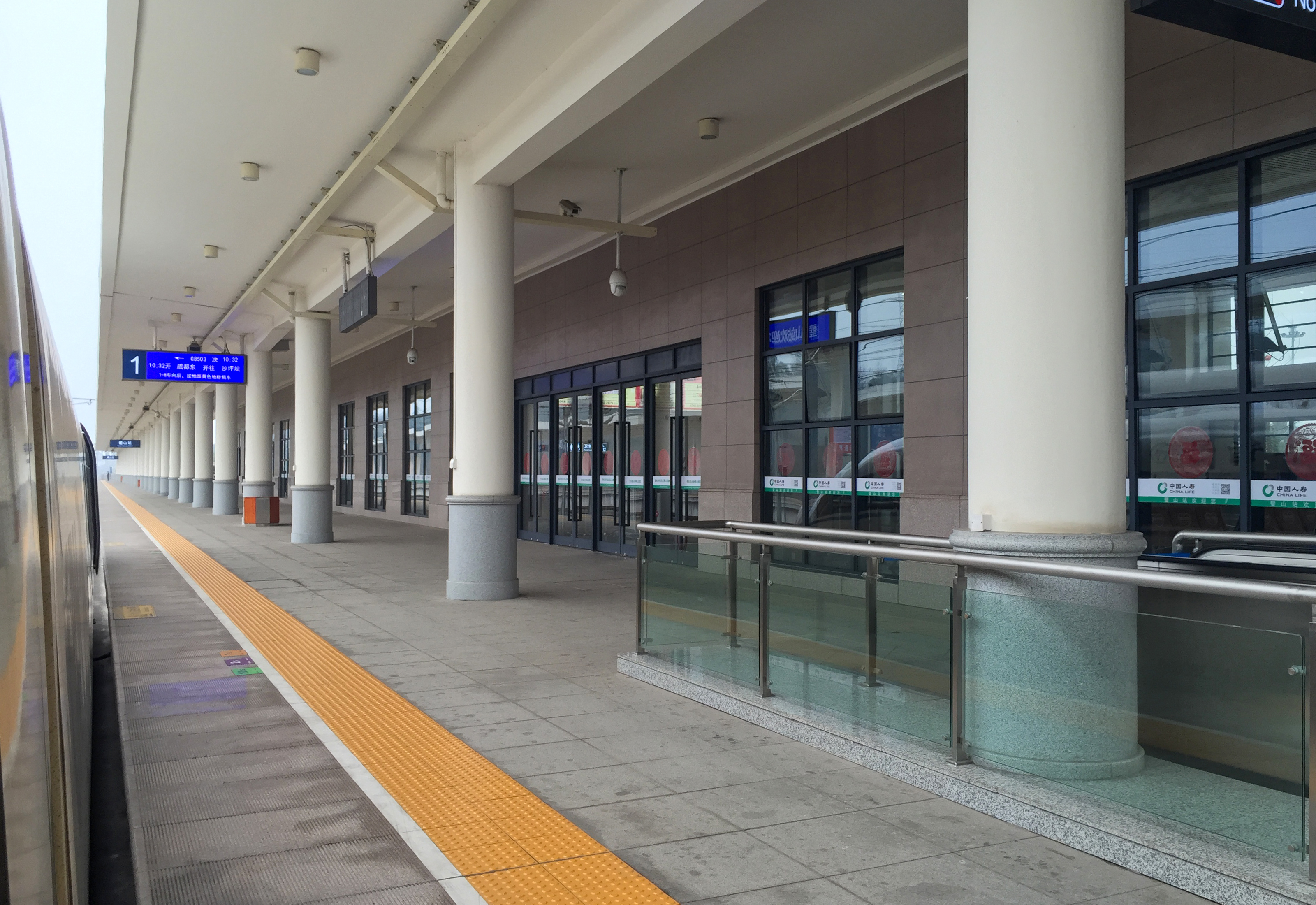 Next station: Shapingba.